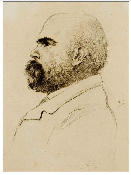 Paul Verlaine, etching by Philip[pe] Zilcken, reproduced in Léon Vanier's Quelques Jours en Hollande, published in Paris, as a frontispice.